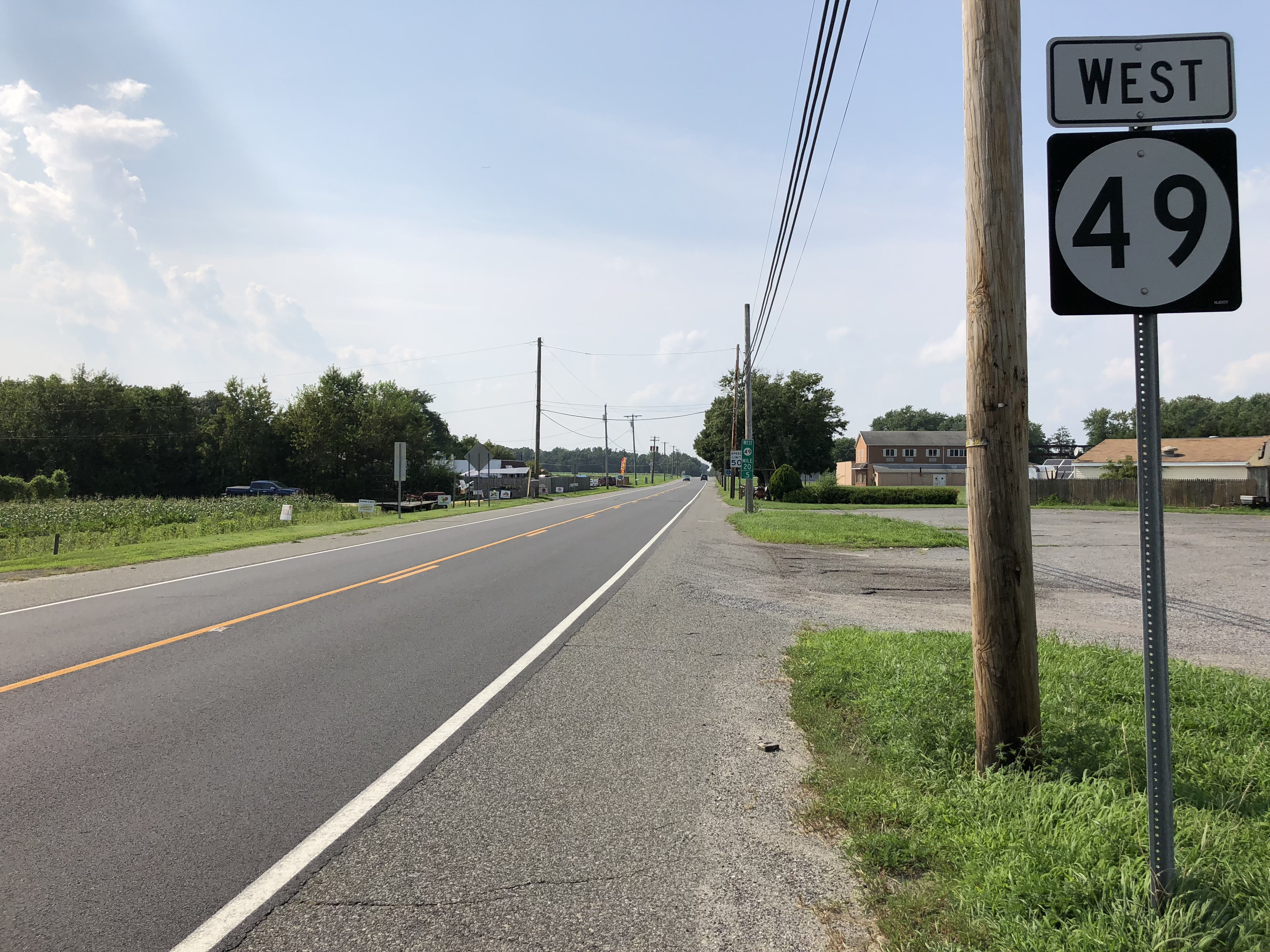 View west along New Jersey State Route 49 (Shiloh Pike) just west of Cumberland County Route 635 (Old Cohansey Road) in Stow Creek Township, Cumberland County, New Jersey